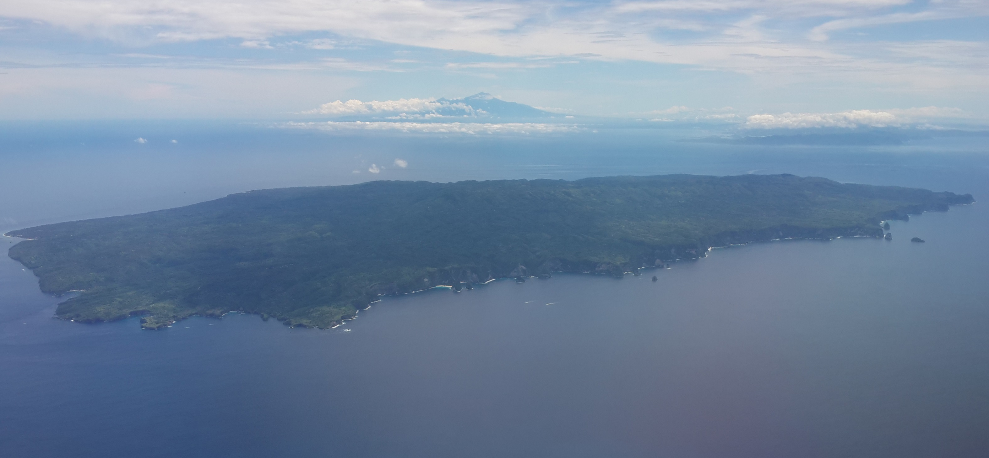 Penida Island